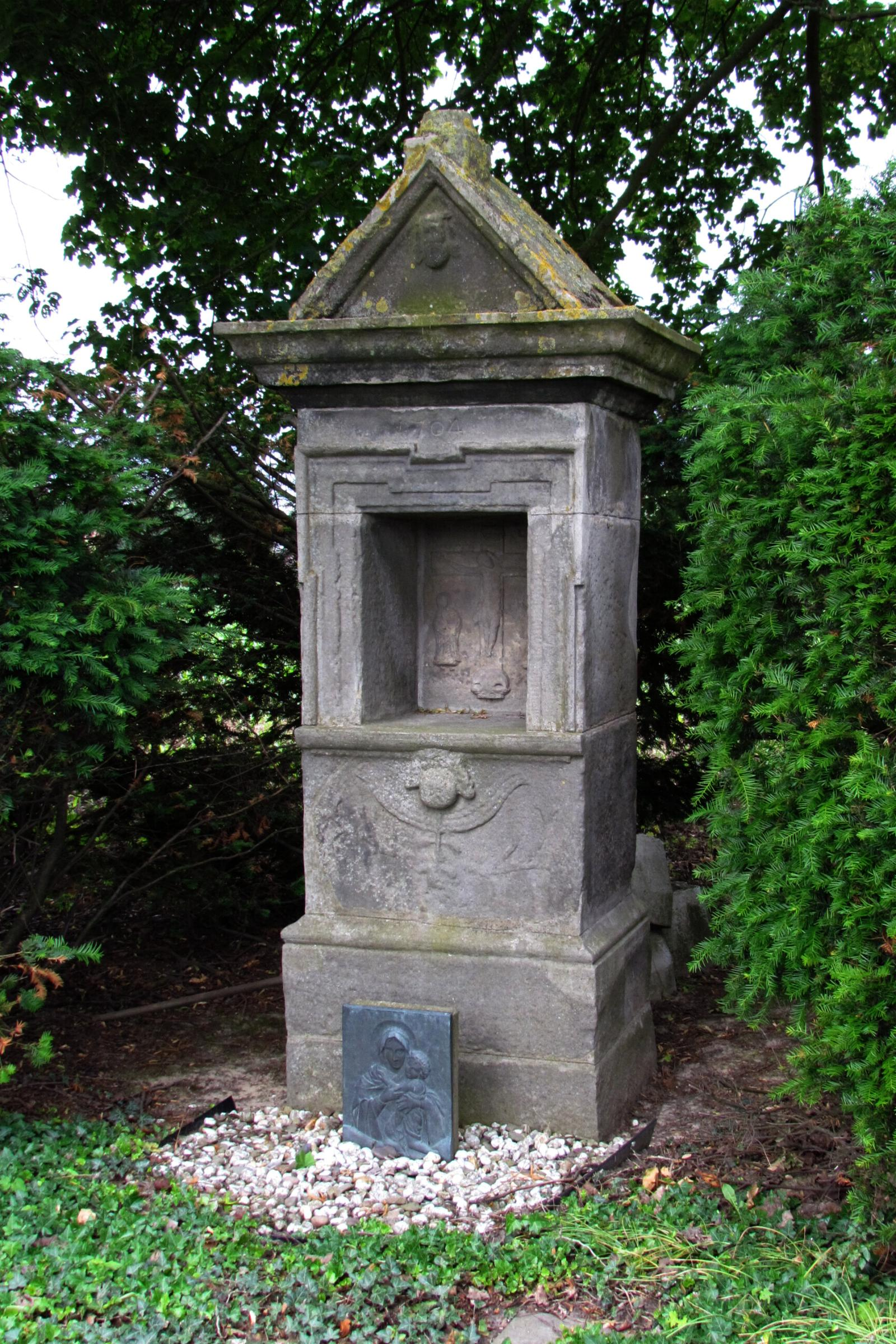 This is a photograph of an architectural monument.It is on the list of cultural monuments of Korschenbroich